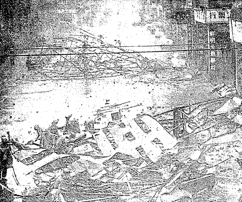 Typhoon Gloria in 1957